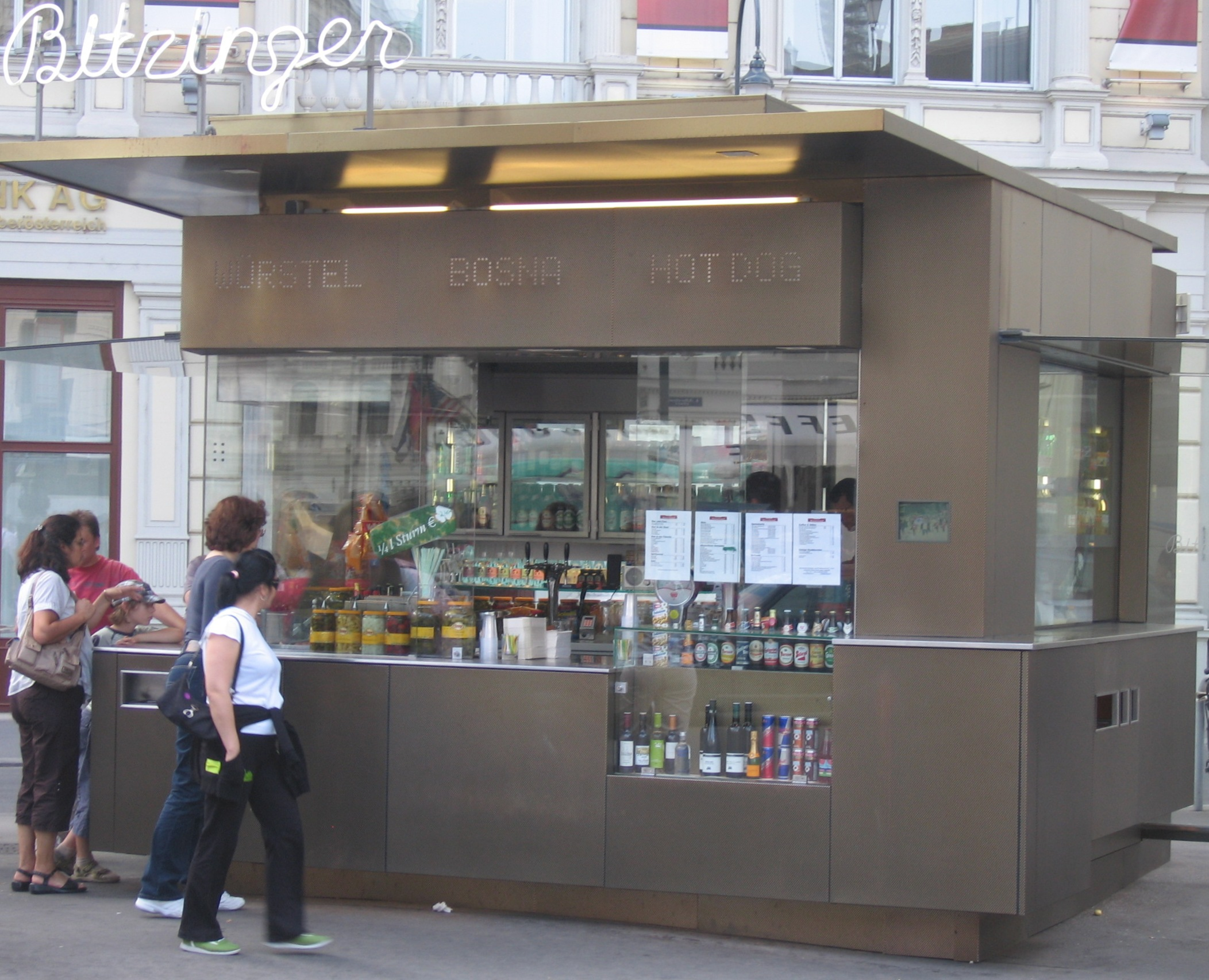 Take-out (Wuerstelstand) in Vienna in front of the Albertina, September 2008